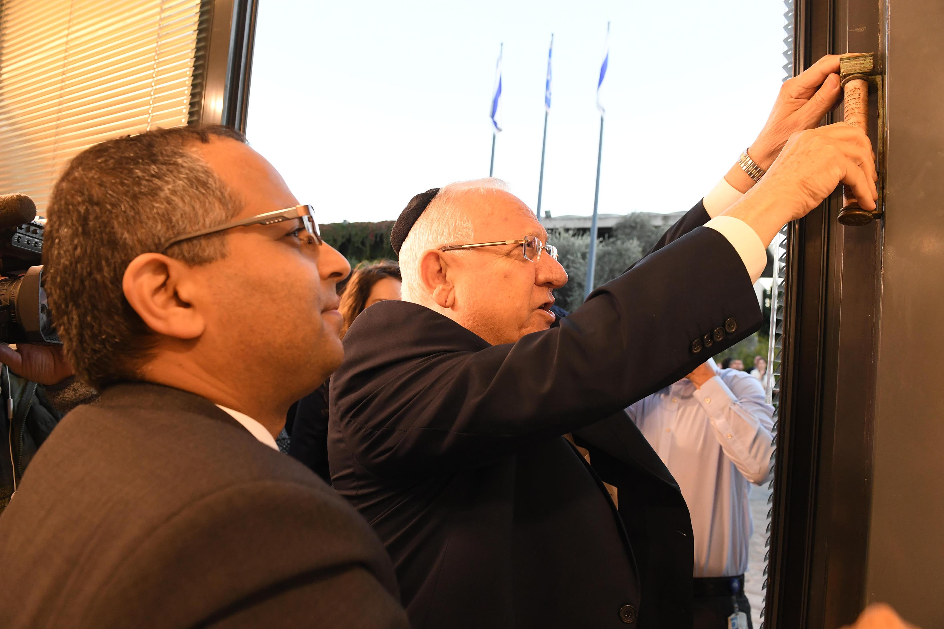 The President of Israel, Reuven Rivlin, has inaugurated the new gates of the President's Residence. They were named after President Shimon Peres and fifth President Yitzhak Navon.